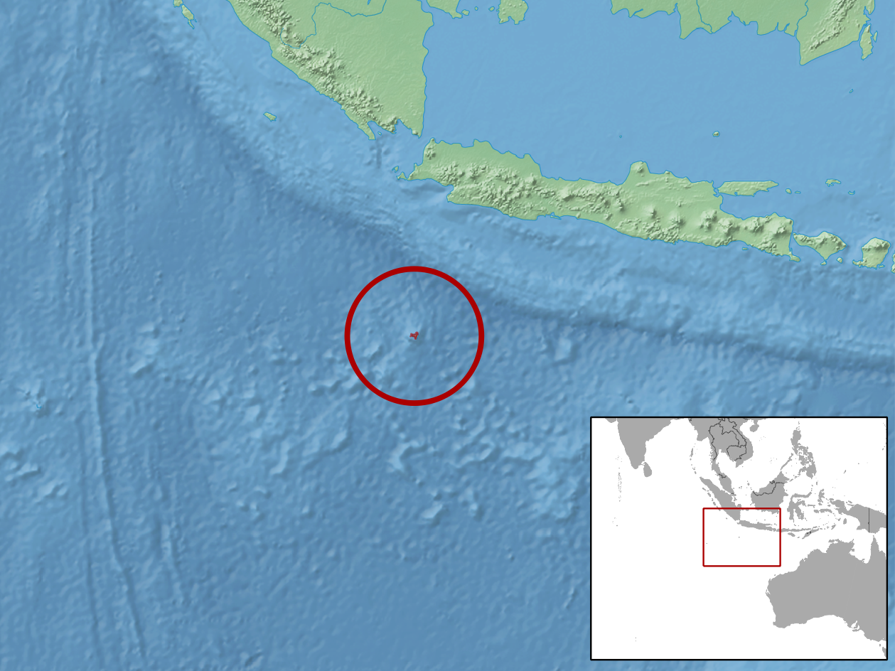 geographic distribution of Emoia nativittatis (RDB) or Emoia nativitatis (IUCN)